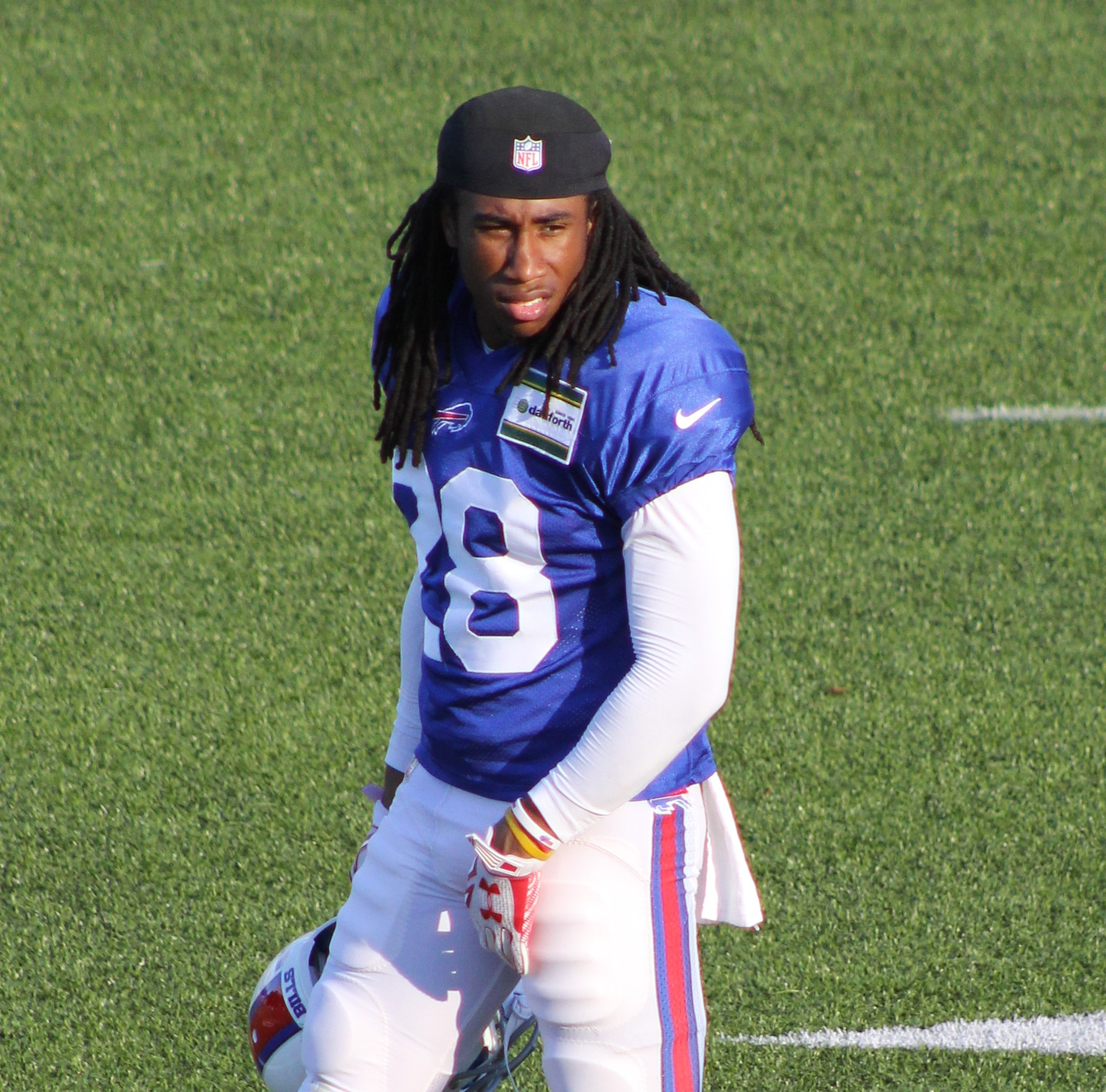 Training Camp 2015